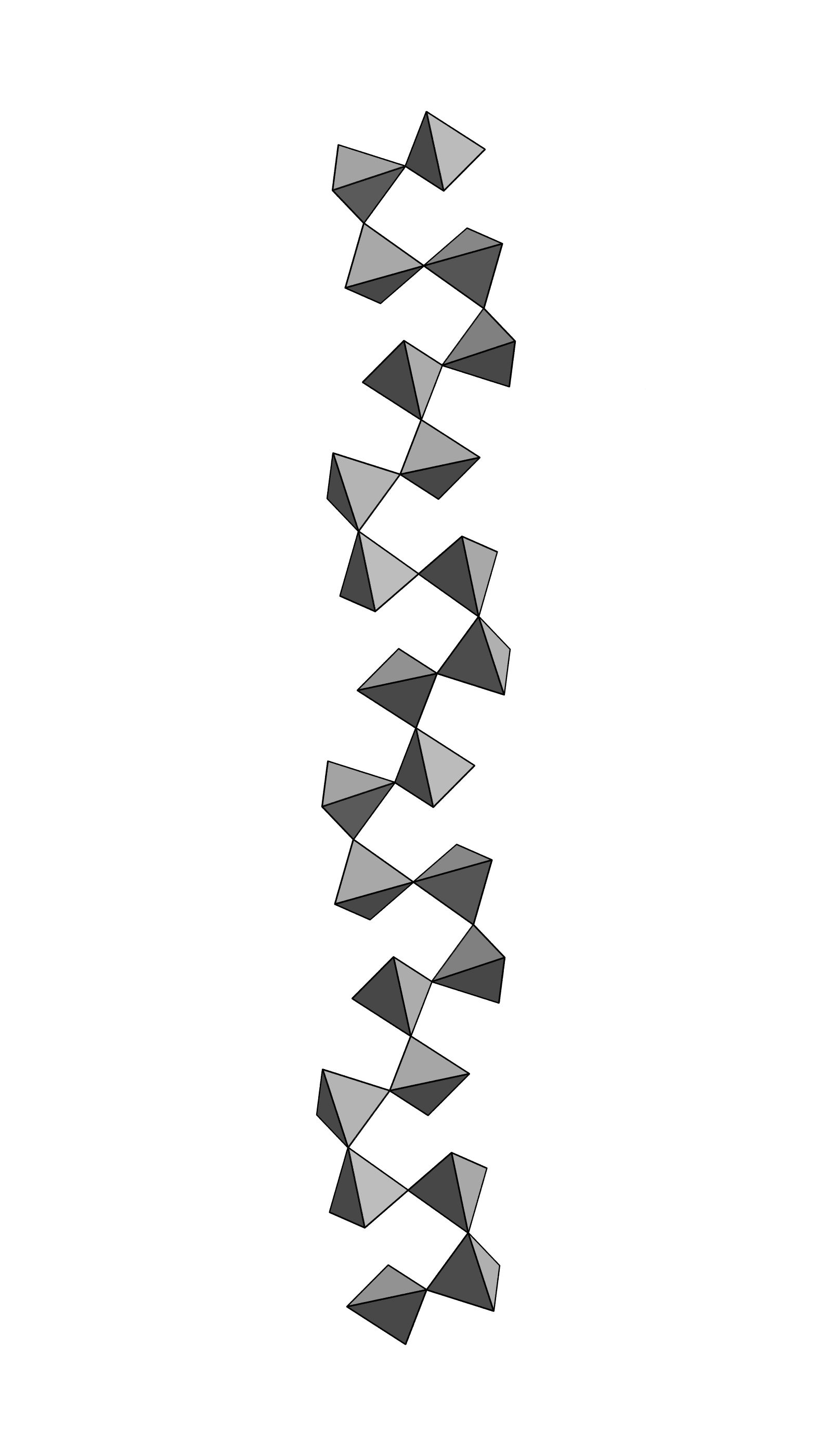 Unbranched zwölfer single chain of Alamosite Data from: Boucher M. L., Peacor, D. R. (1968): The crystal structure of alamosite, PbSiO3; Zeitschrift fur Kristallographie 126, pp. 98-111 Calculation of image data: Larry W. Finger, Martin Kroeker, and Brian H. Toby, DRAWxtl, an open-source computer program to produce crystal-structure drawings, J. Applied Crystallography V40, pp. 188-192, 2007 Rendering: POVRAY